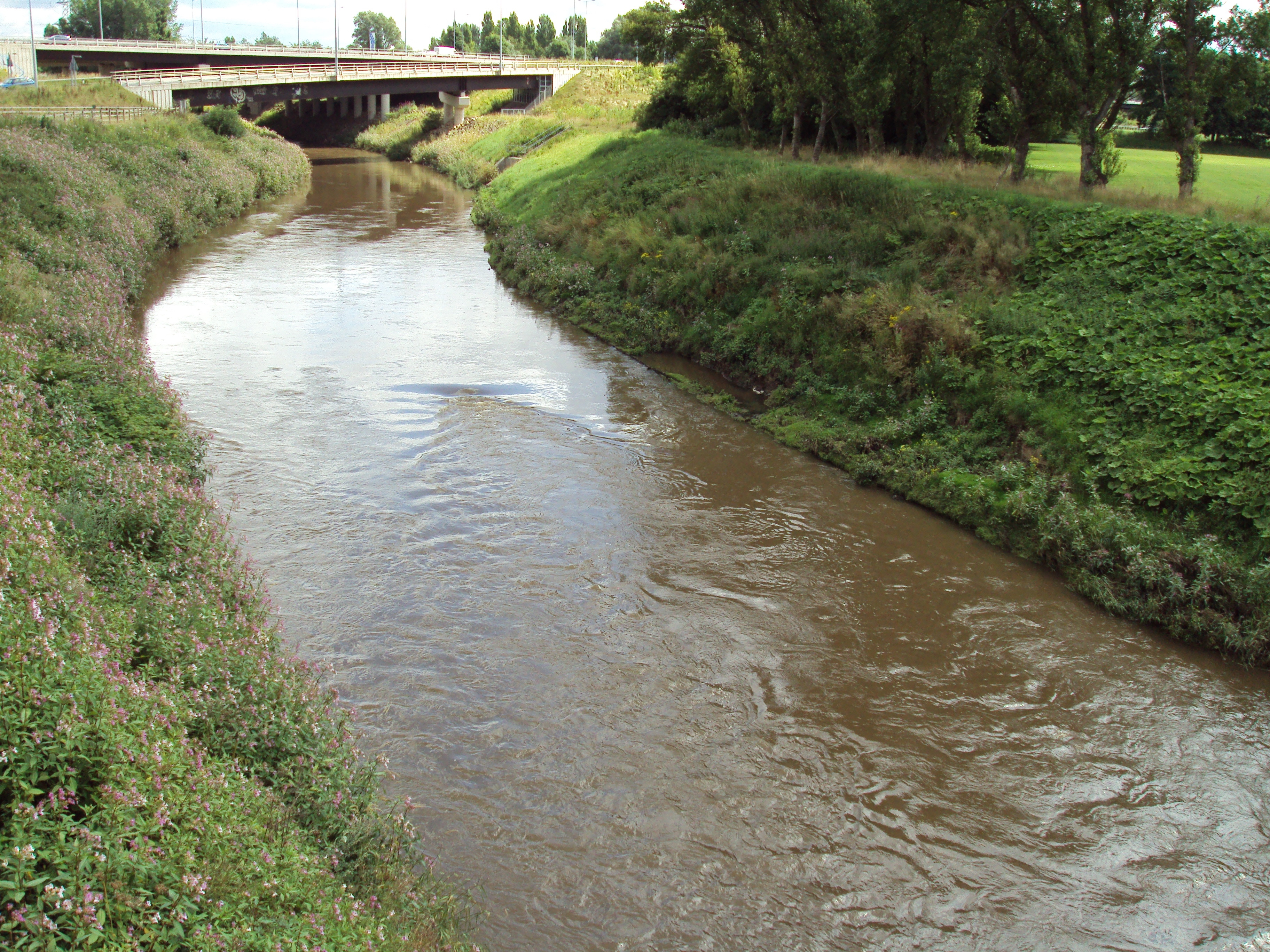 The River Mersey. Photo taken from the A56 road just north of Sale, Greater Manchester.